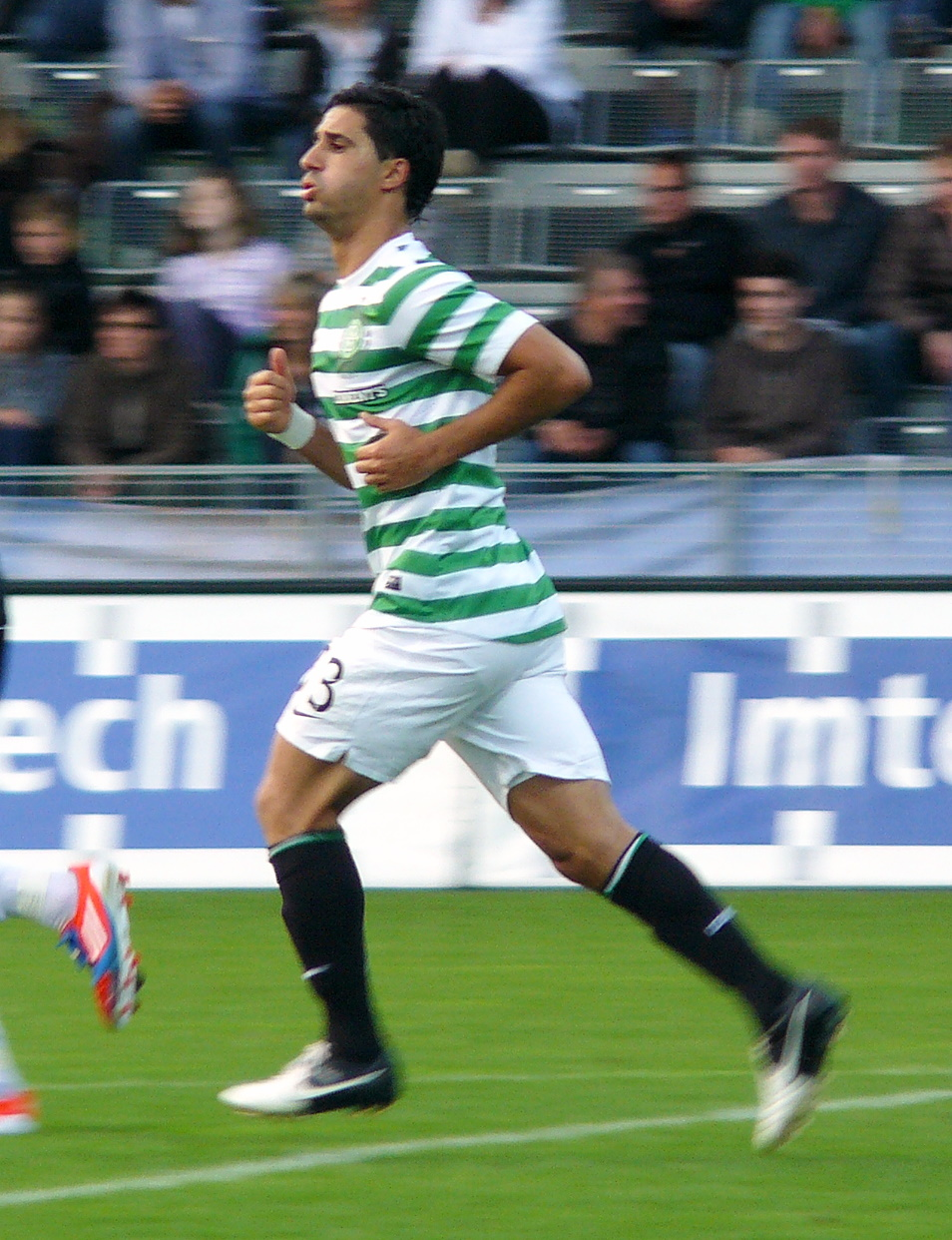 Beram Kayal, Israeli footballer